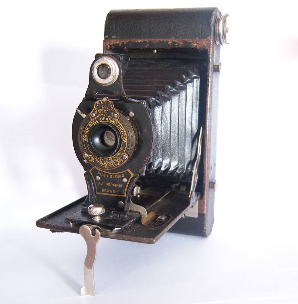 Kodak No. 2 Folding Autographic Brownie, circa 1913, picture 1 of 3